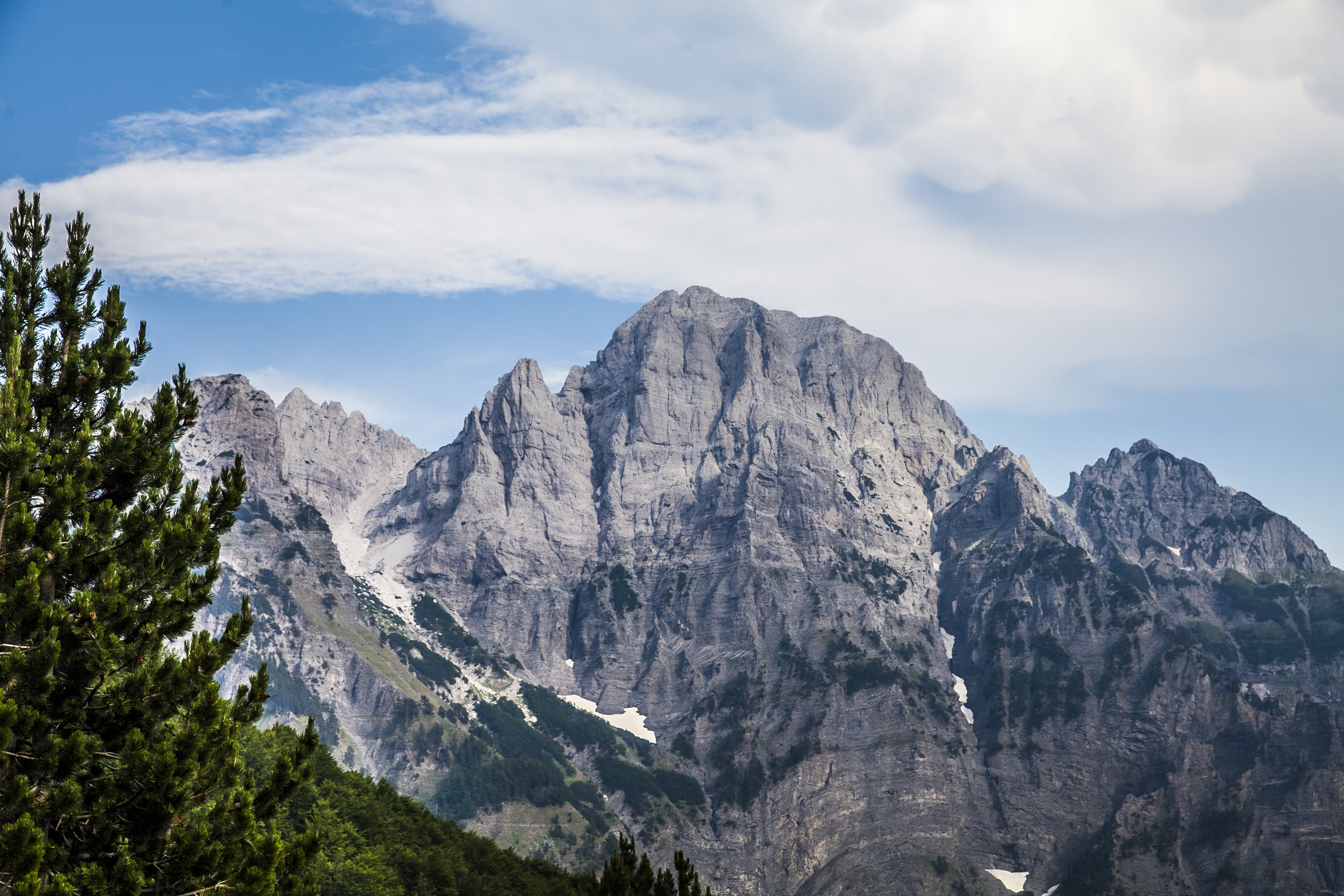 View from Qafa e Valbones, Shkoder, Albania.